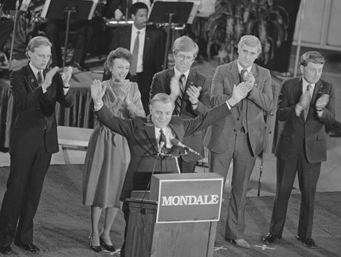 Walter Mondale photographed after victory of the Iowa Democratic Caucus, a crucial moment in the candidate's campaign. US LOC: February 21, 1984.